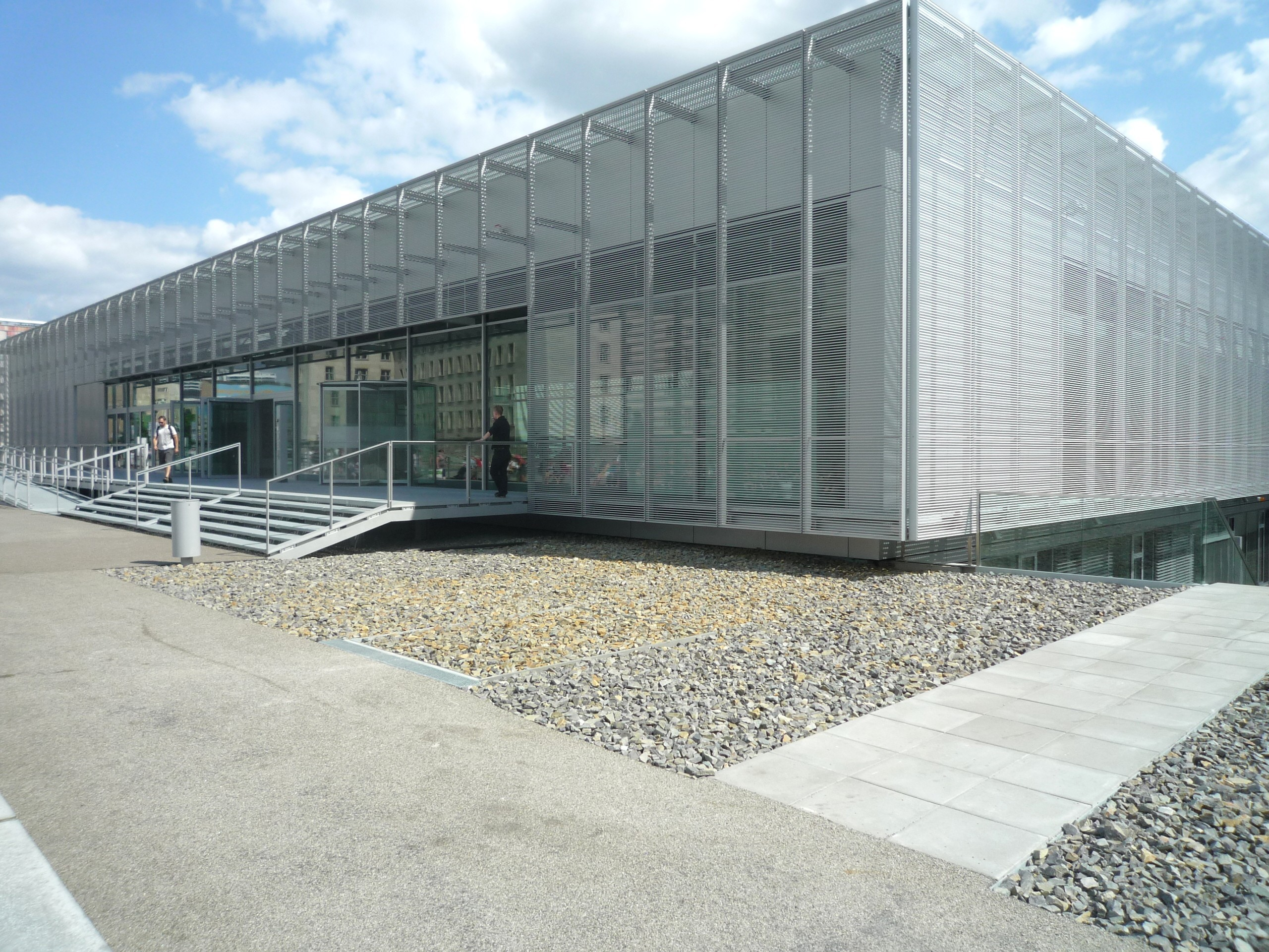 Berlin, Niederkirchnerstraße. Exhibition "Topographie des Terrors" (topography of terror). The exhibition-hall.